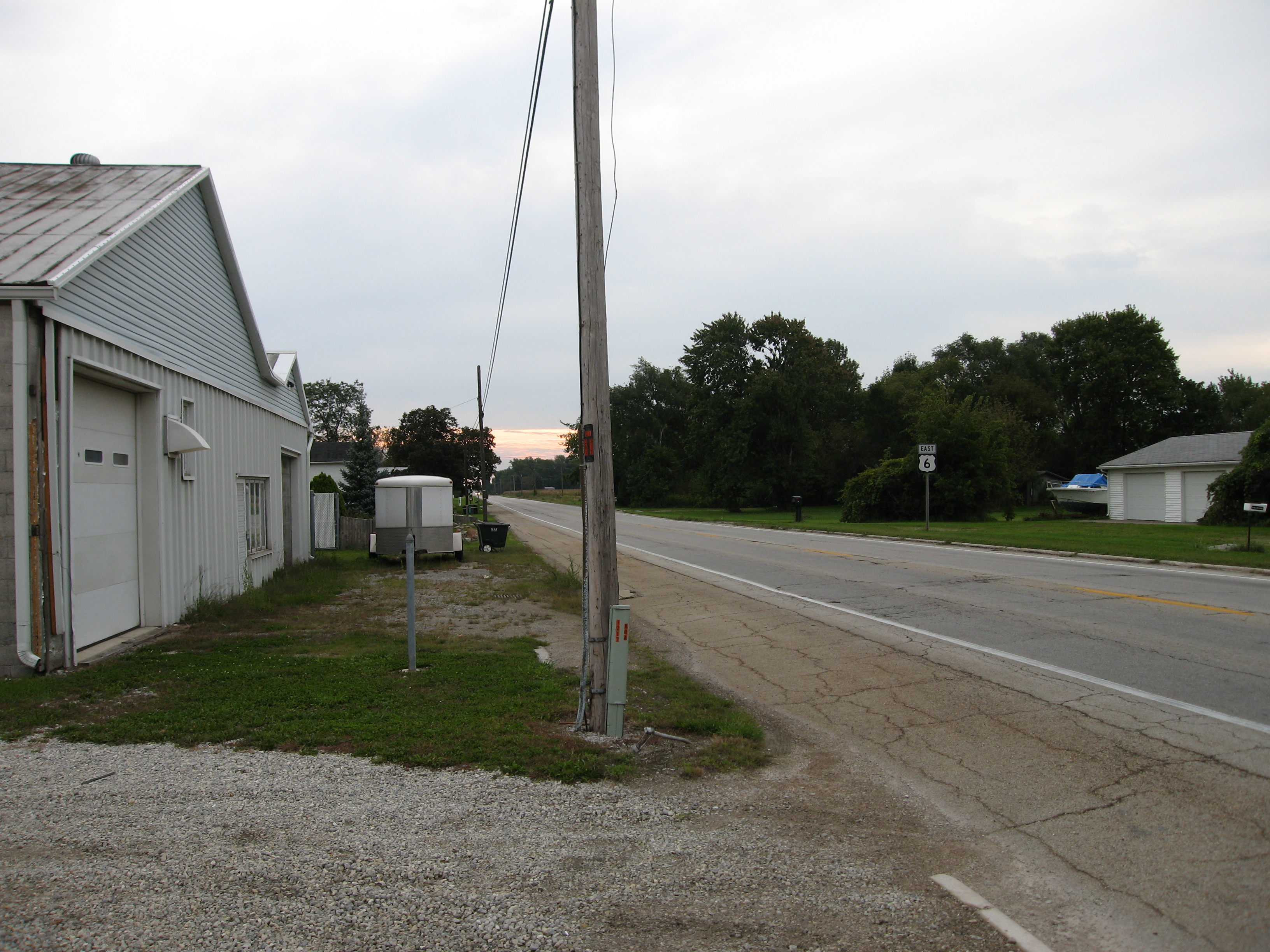 Photograph of the unincorporated community of Rollersville, Ohioen, taken at street level from the Grand Army of the Republic Highway, looking East on U.S. Route 6.